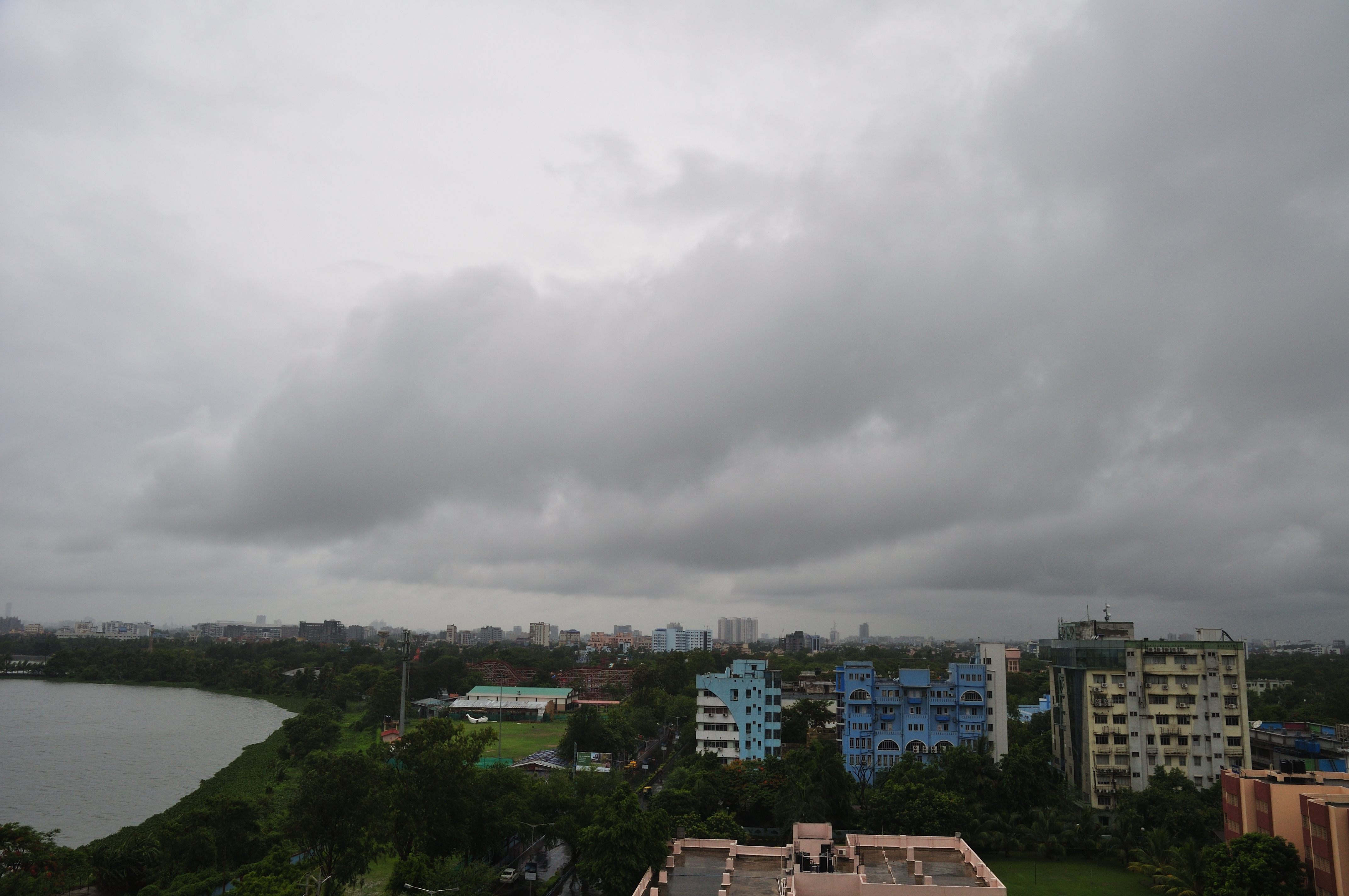 The cyclonic storm Roanu has started affecting weather over Gangetic West Bengal including Kolkata. This city has been witnessing rain and thundershowers since Thursday, 19 May, 2016 morning.